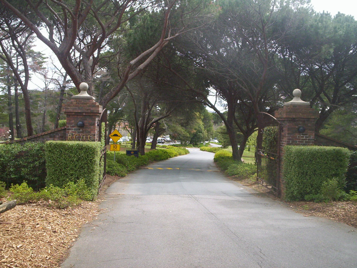 Entrance to the royal canberra golf club, shows some of the nice trees around the area - see letters RCGC on gate. I took the photo. Category:Images of Canberra